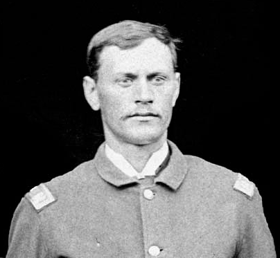 Thomas L. Sloan at Hampton Institute, Hampton University Museum Archives Other information No.